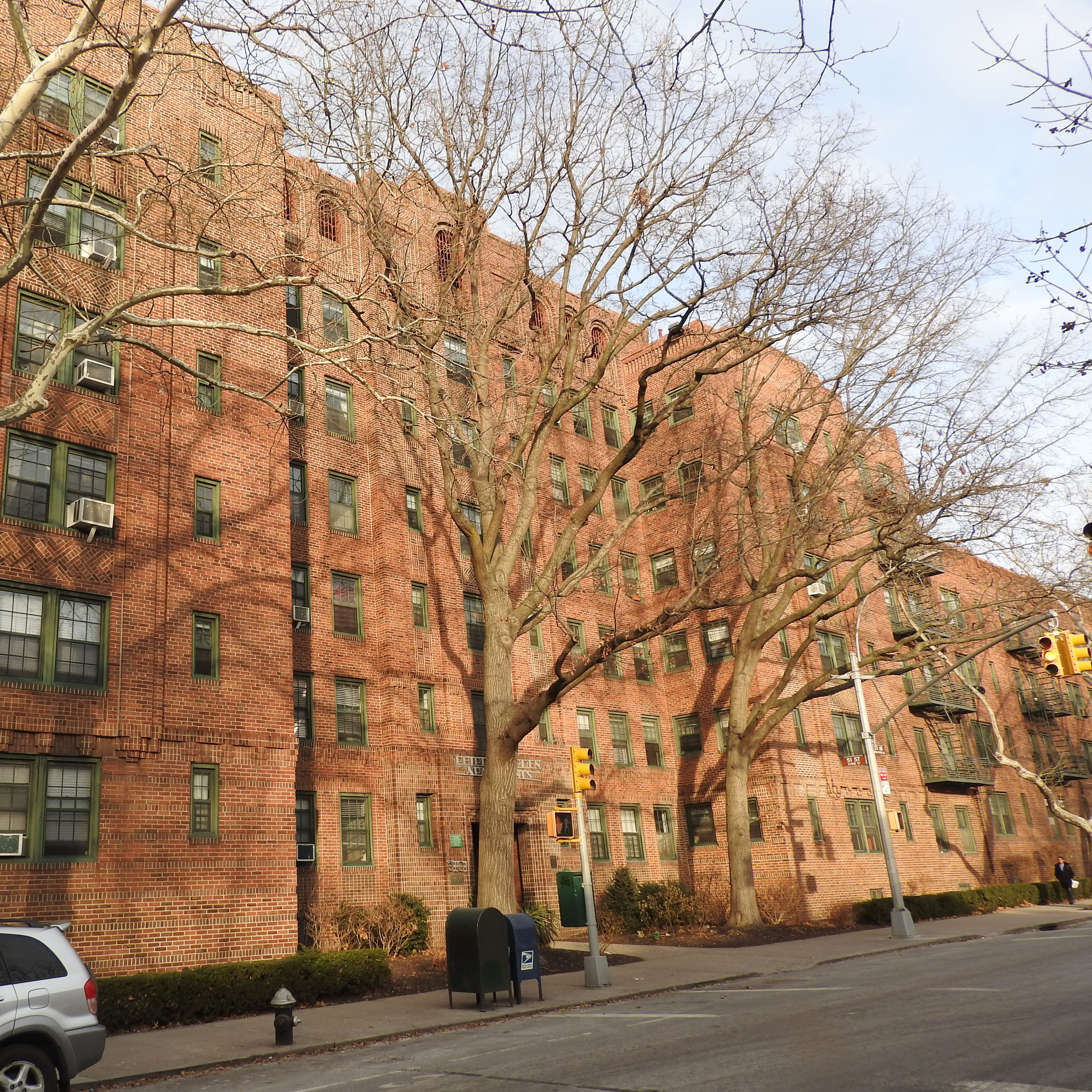 Looking east, late on a sunny winter afternoon.